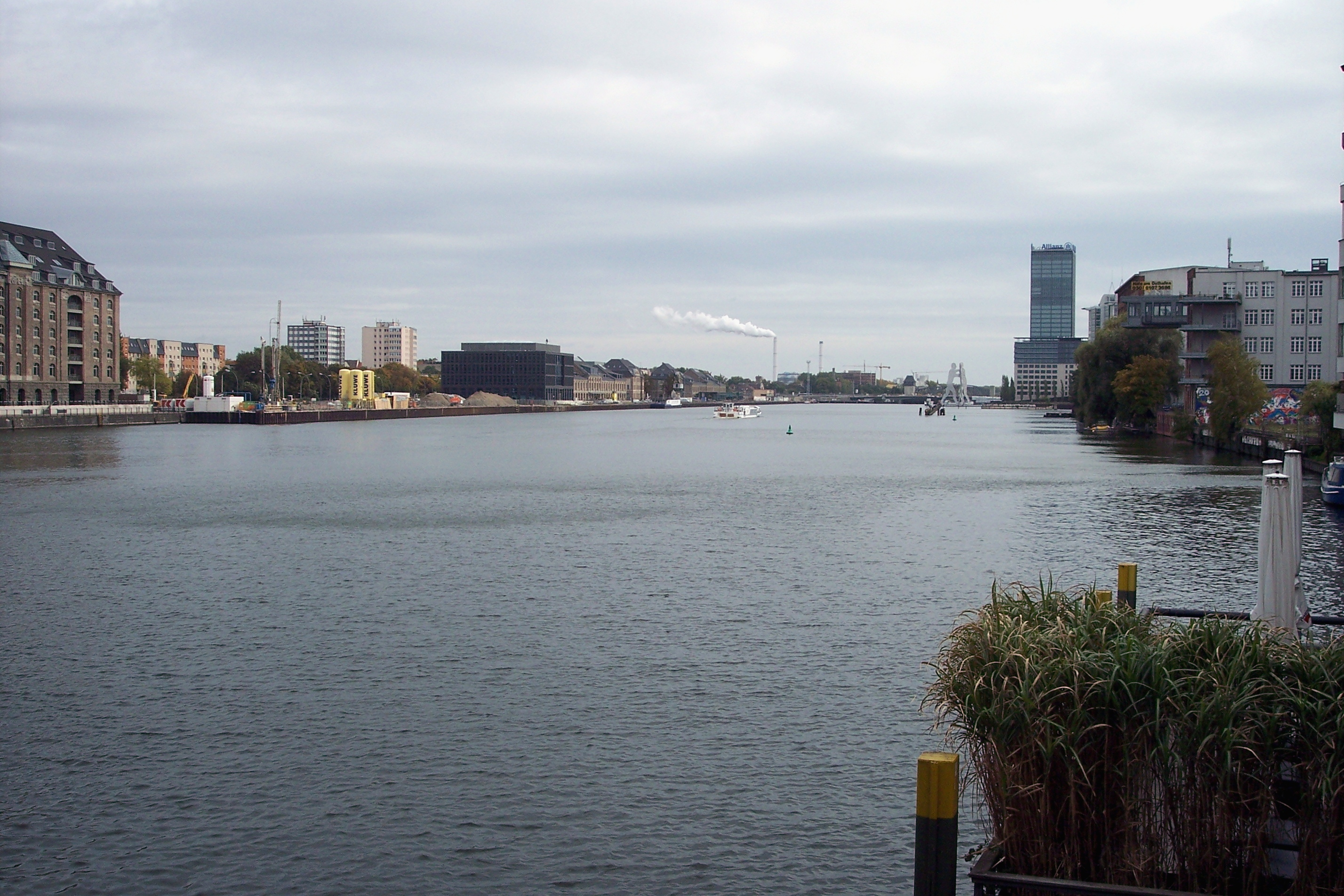 The Osthafen in Berlin in 2008, there are now buildings on the empty space to the left.